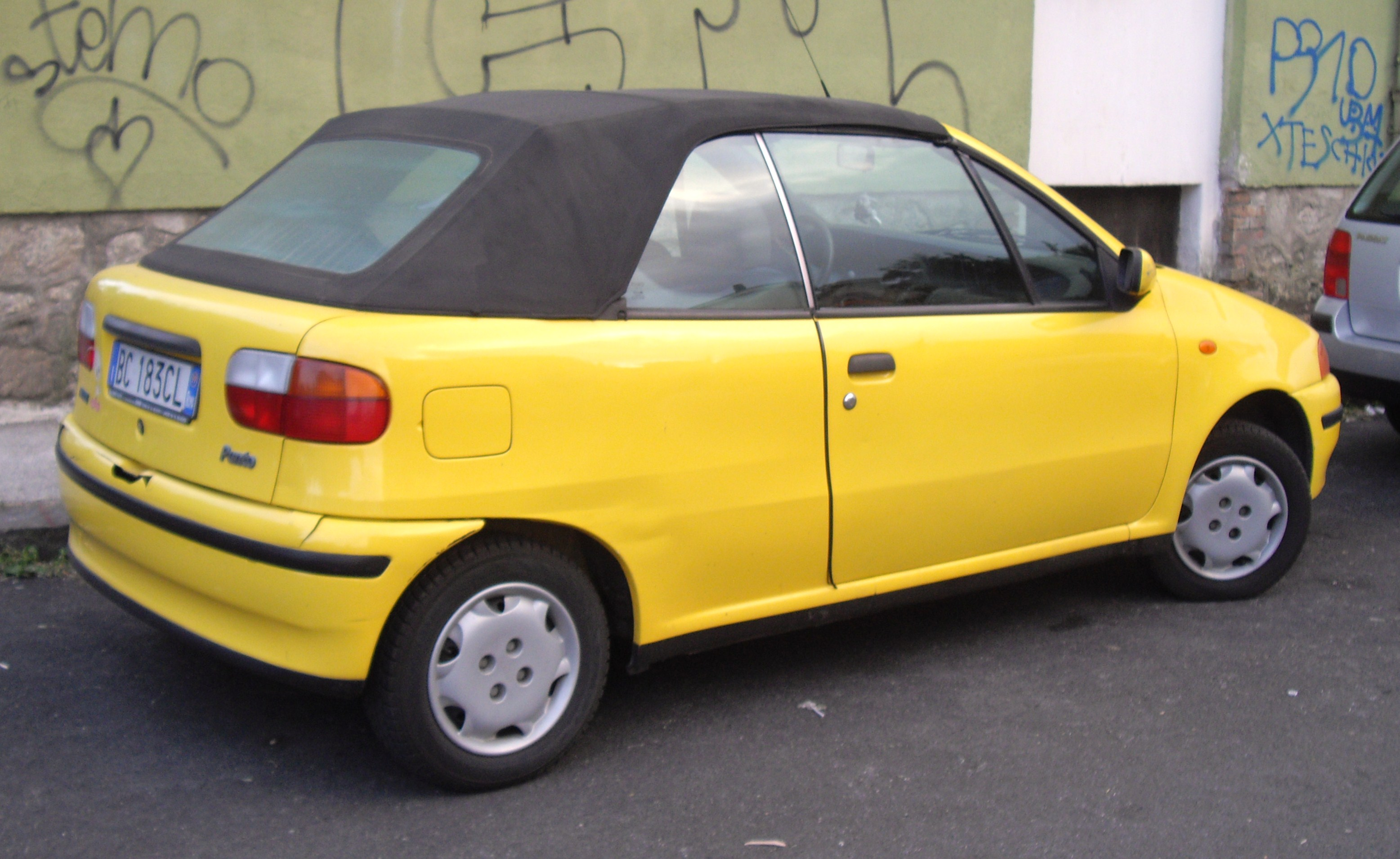 Punto Cabrio Bertone rear